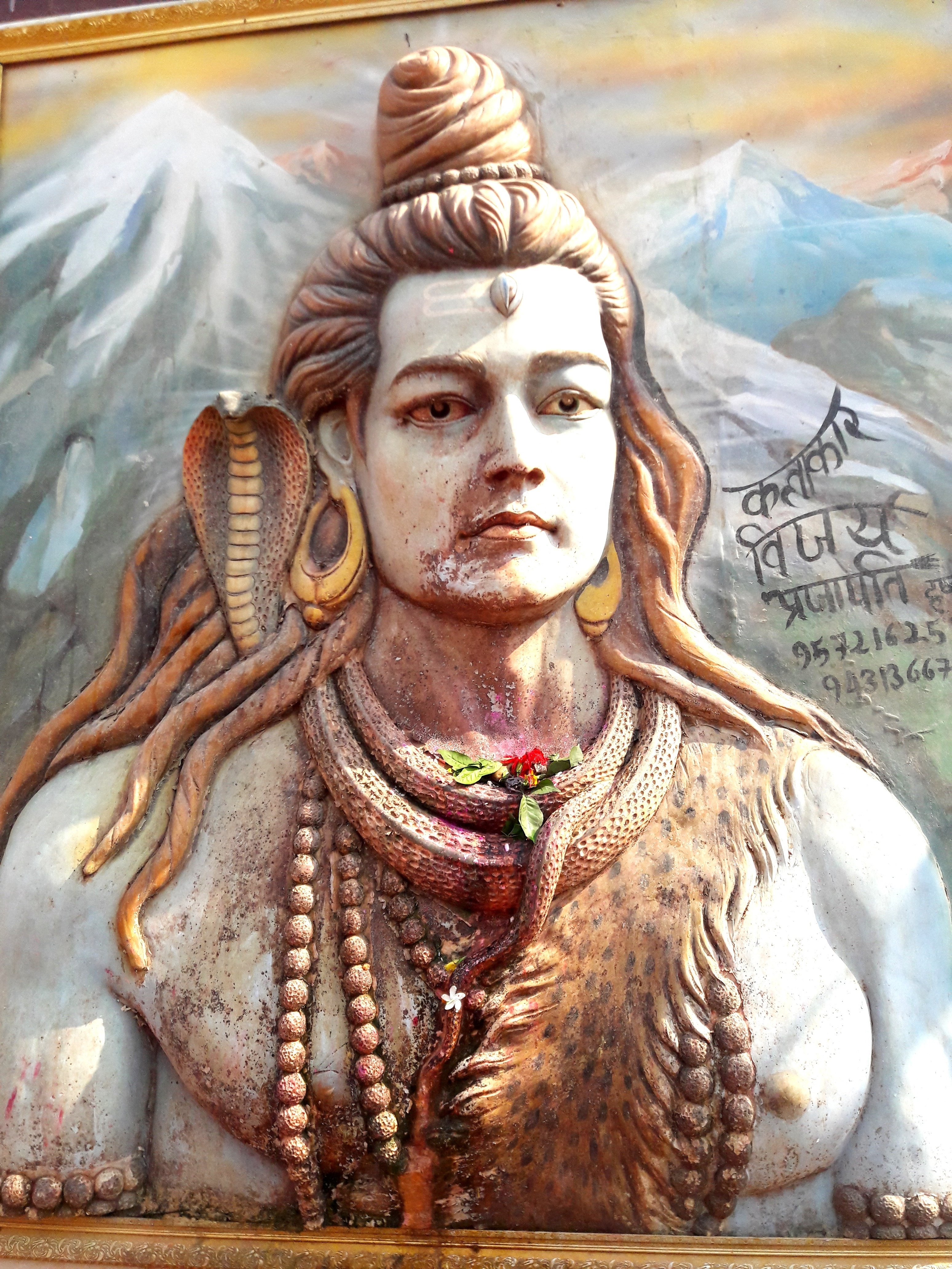 The beautiful sculpture on the wall of temple Baba Basukinath, Jharkhand is about 45 km east of the holiest Hindu Jyotirlinga Baba Baidyanath Dham Temple, Deoghar. It is considered as one of the great religious place for Hindu Pilgrims and they often visit there after the visit of Baba Baidyanath Dham carrying Gangajal.